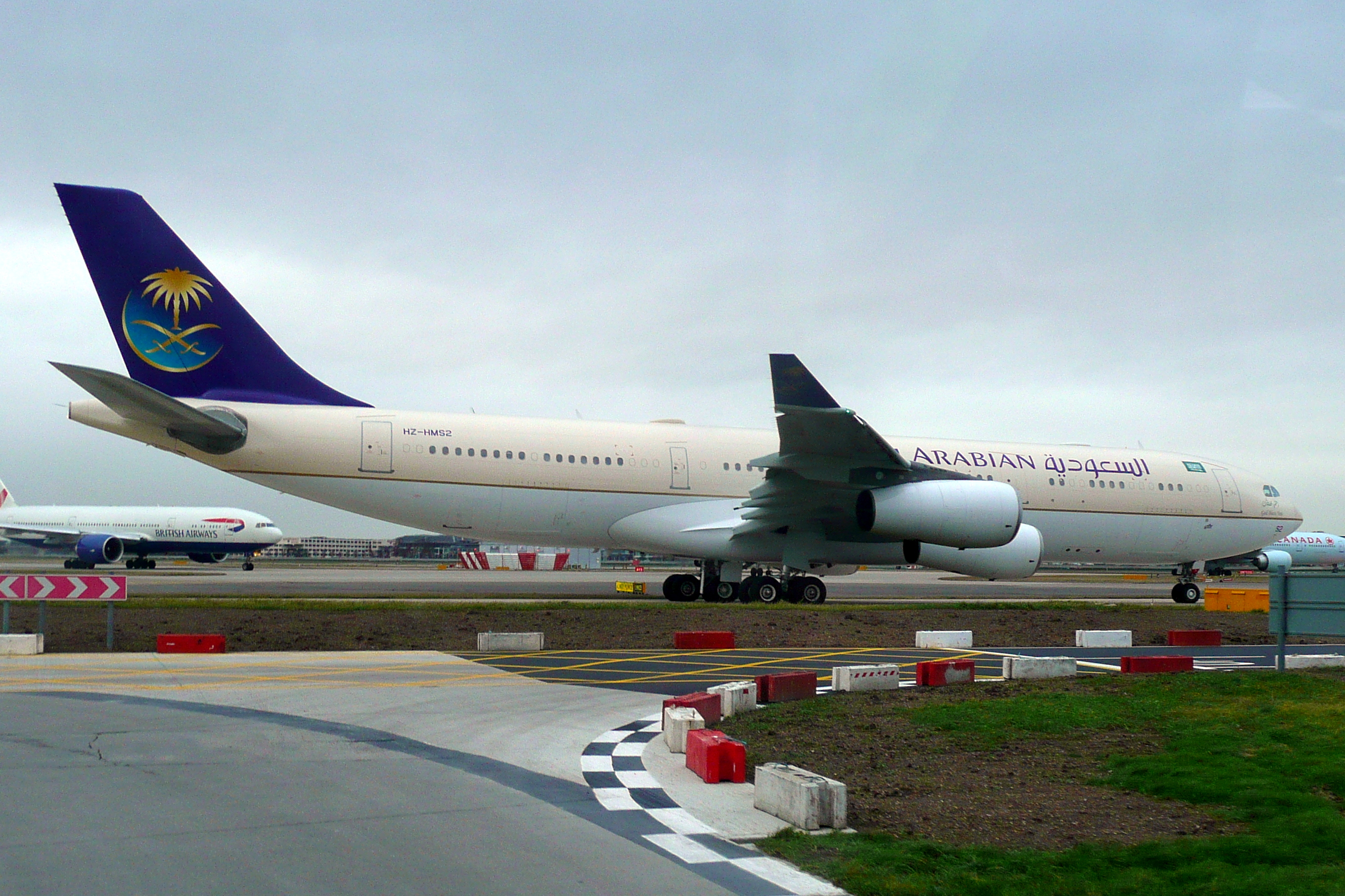 HZ-HMS2 Airbus A340-200 Saudi Arabian VIP Flight in the queue for departure for 027R.